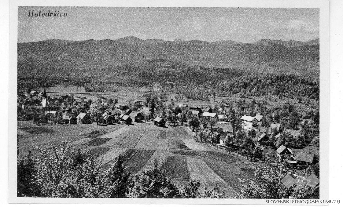 Postcard of Hotedršica